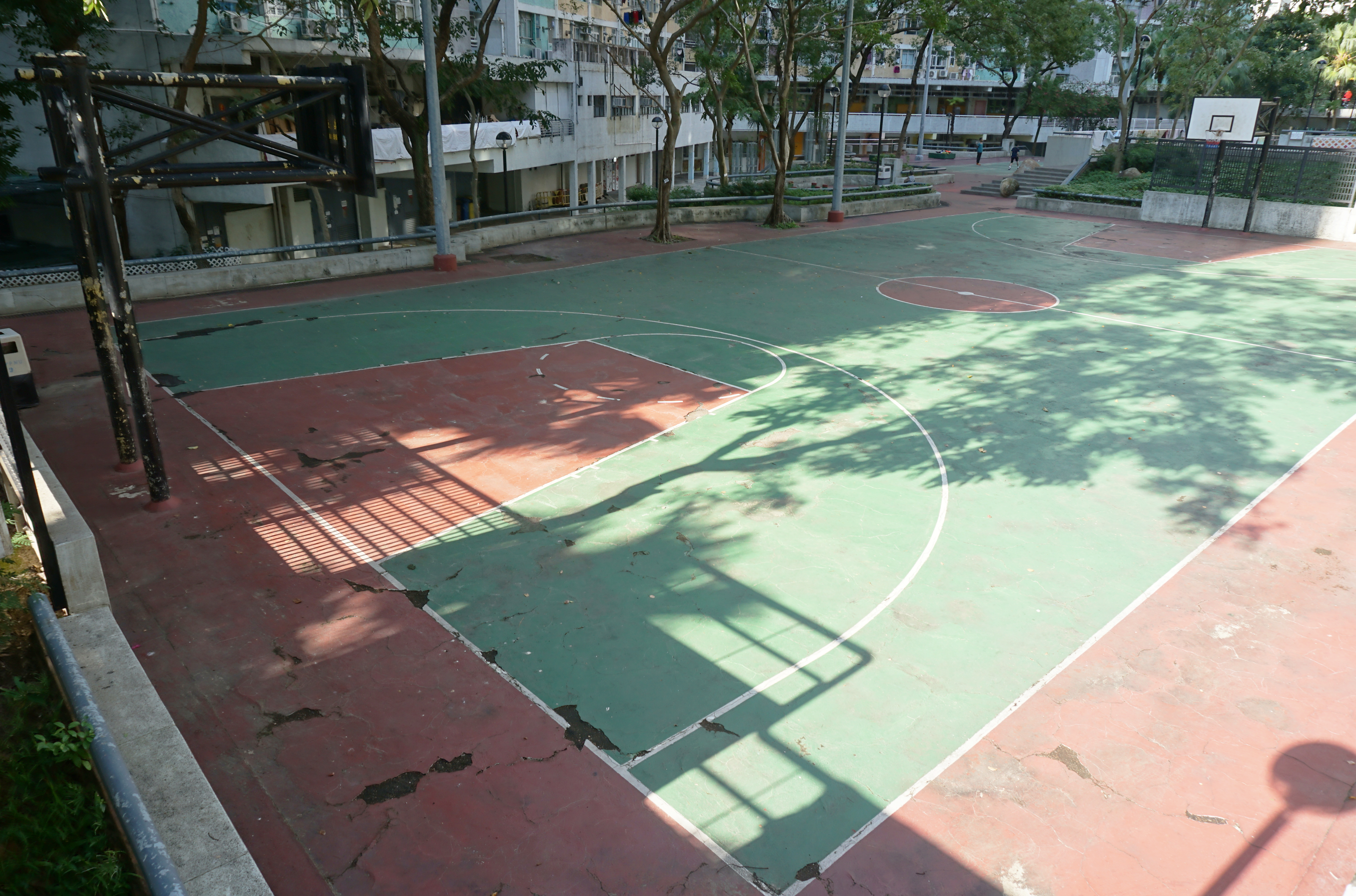 Yiu On Estate in Ma On Shan, Hong Kong.